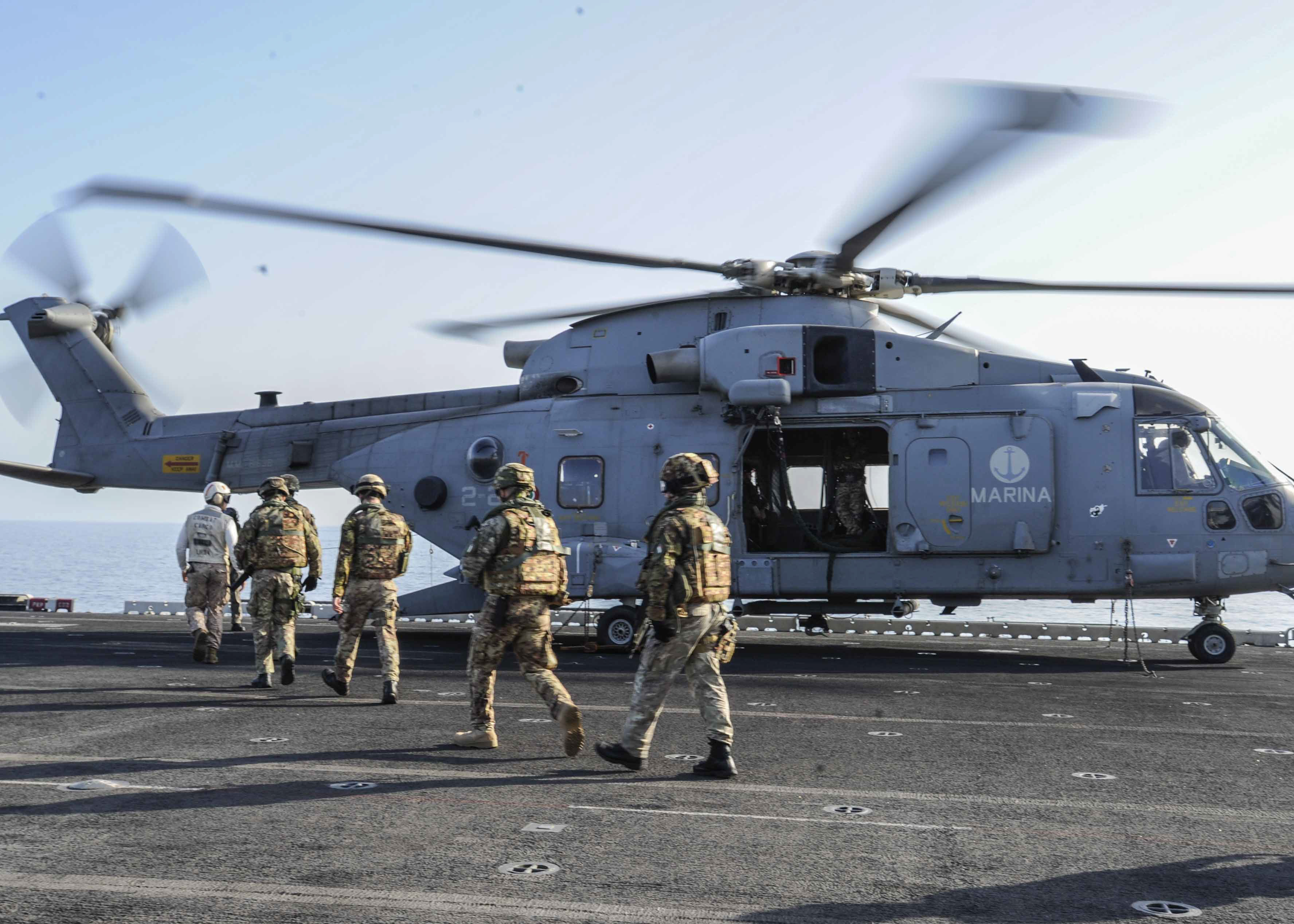 Italian Marines embark an EH-101 Merlin helicopter on the flight deck aboard the amphibious assault ship USS Boxer (LHD 4). Boxer is the flagship for the Boxer Amphibious Ready Group and, with the embarked 13th Marine Expeditionary Unit, is deployed in support of maritime security operations and theater security cooperation efforts in the U.S. 5th Fleet area of responsibility. (U.S. Navy photo by Mass Communication Specialist 3rd Class J. Michael Schwartz/Released)